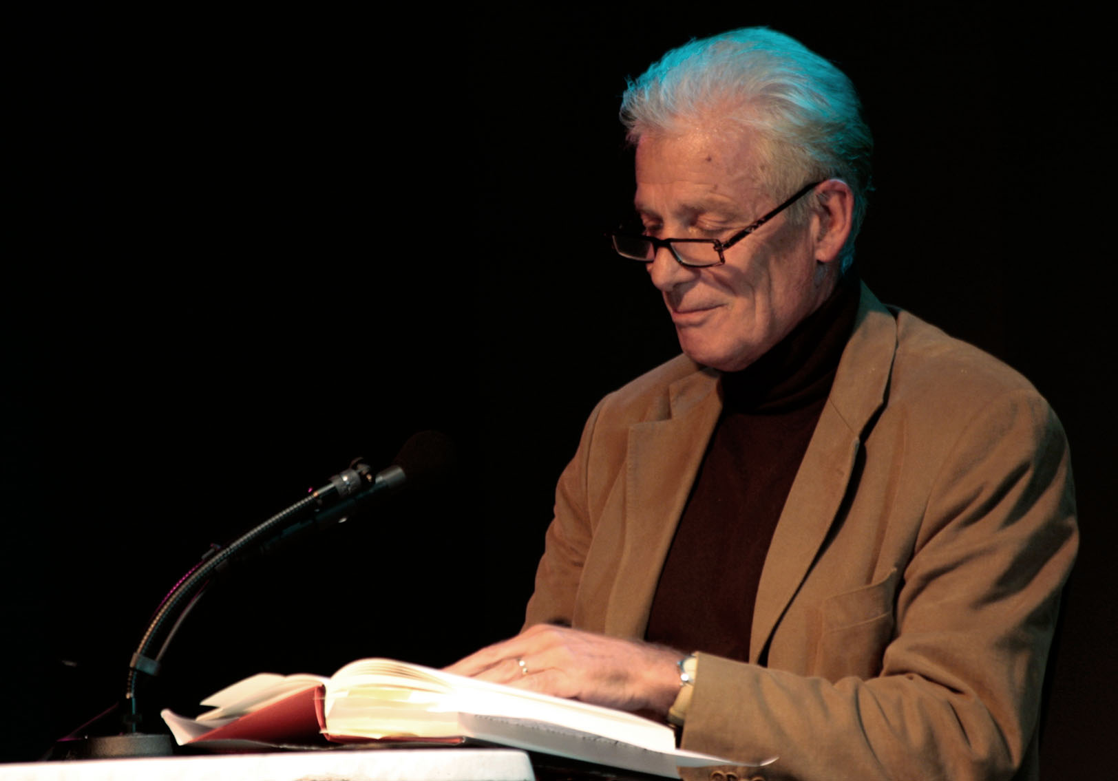 Journalist and author Peter Michael Lingens reading from 'Ansichten eines Außenseiters' (literary evening "Rund um die Burg" 2009 near the Burgtheater in Vienna).